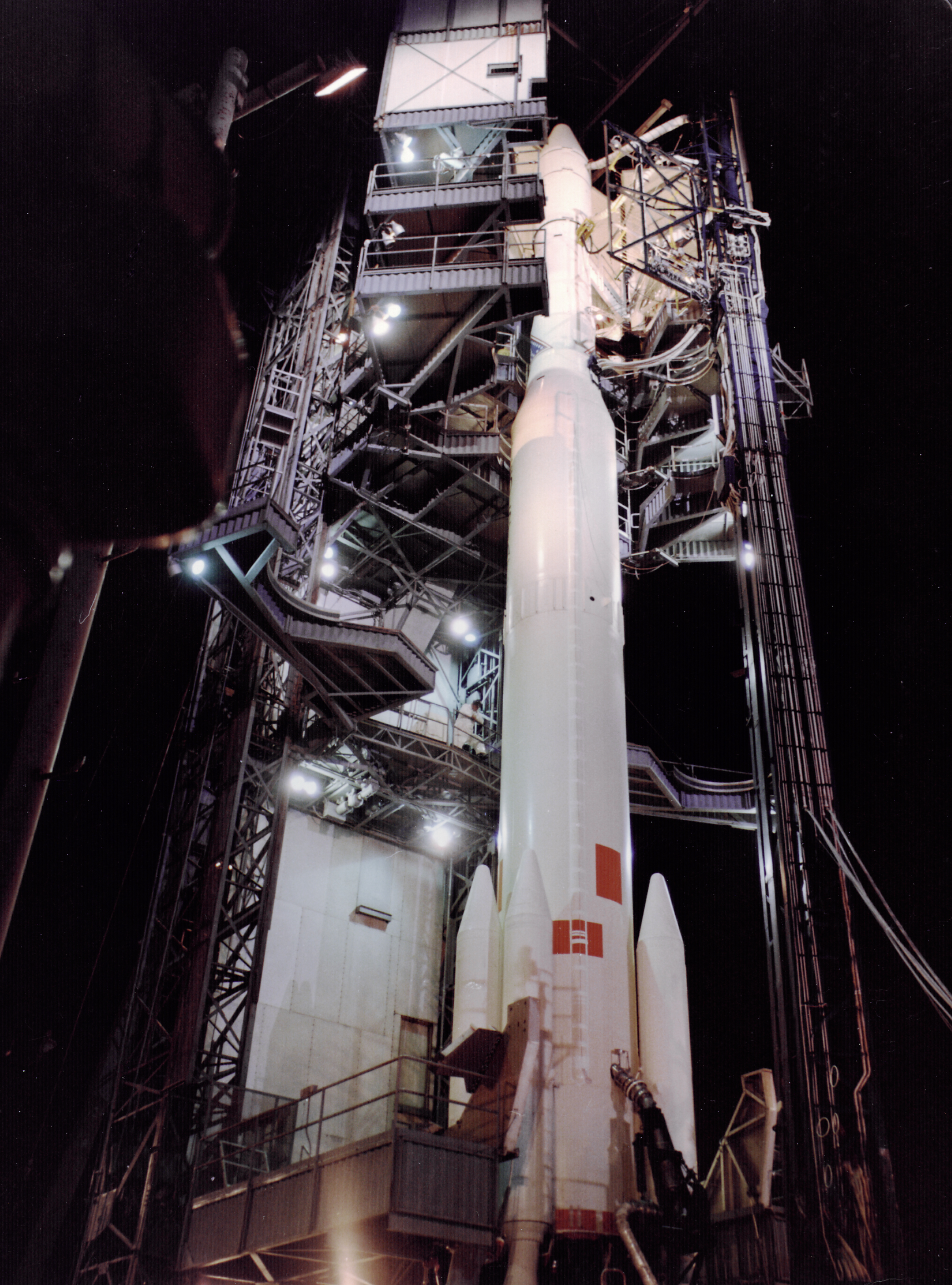 On October 21, 1971, this Delta rocket carrying the Improved TIROS Operational Satellite (ITOS-B) lifted off from NASA's Western Test Range in California. The flight failed. Engineers determined that a nitrogen jet system in the rocket's second stage failed to maintain a stable attitude during the coast phase of the launch. Consequently, the satellite never achieved a usable orbit. NASA developed, launched and operated the ITOS weather satellites for what was then known as the National Environmental Satellite Service of the National Oceanic and Atmospheric Administration. The satellite was supposed to provide routine weather observations.